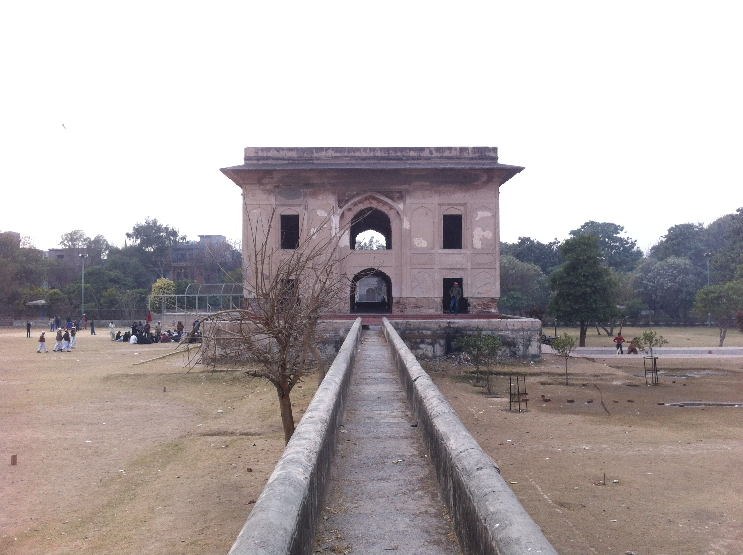 Outside view of Nadira Begum's tomb during winter This is a photo of a monument in Pakistan identified as the PB-72